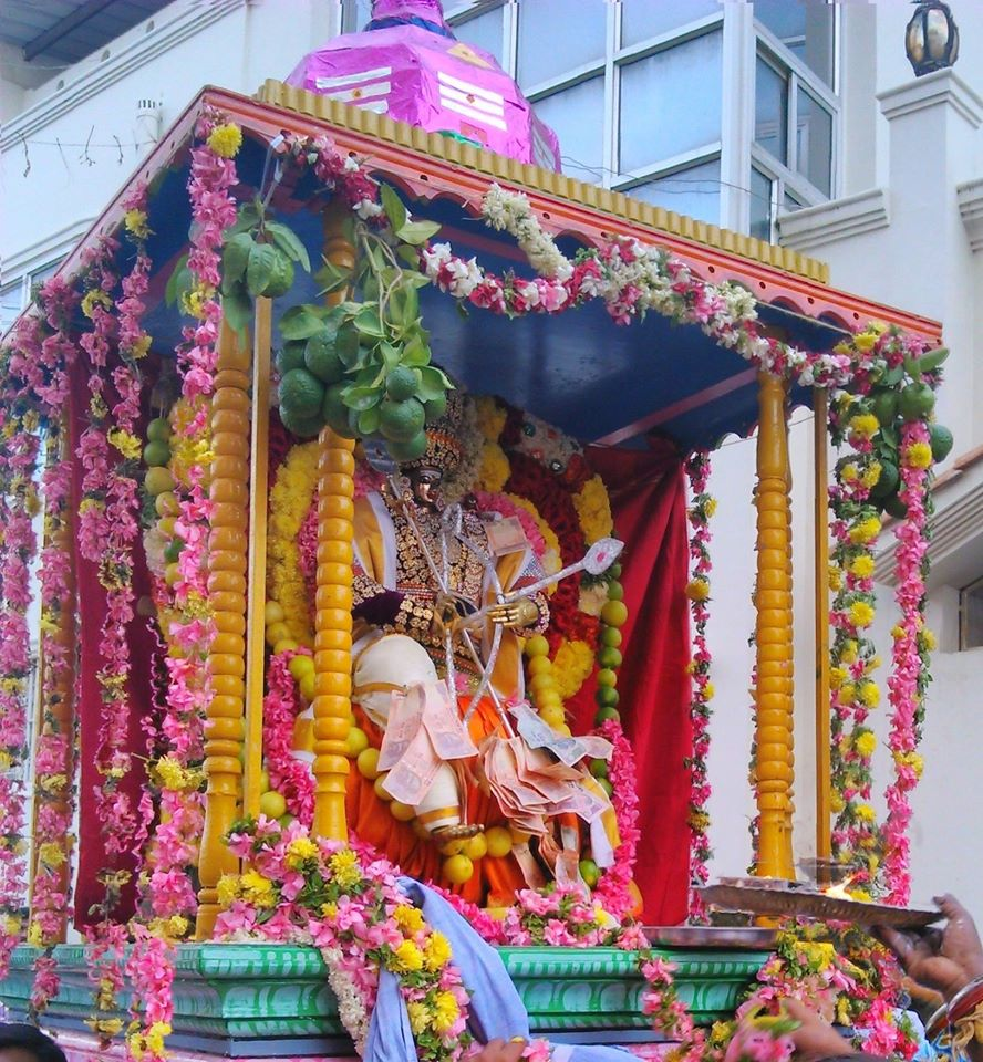 Sri Muthukumaran (Lord Muruga) killed Surapadman a demon is known as Soorasamharam a reenactment of the deed is performed here and Skanda Sashti festival is also celebrated by Vennandur people.